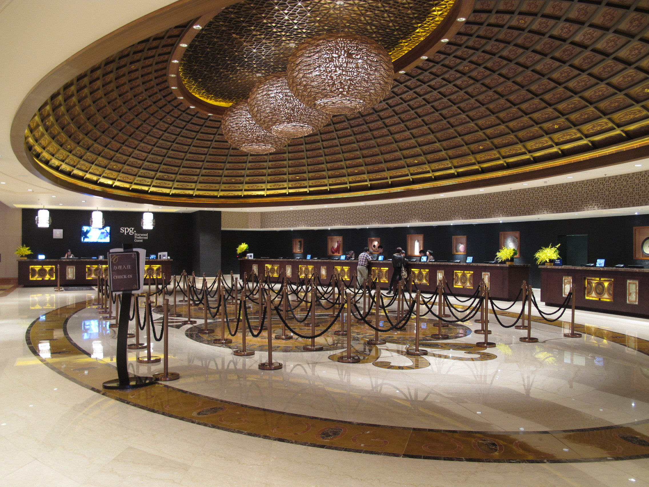 Sheraton Grand Macao Hotel Lobby